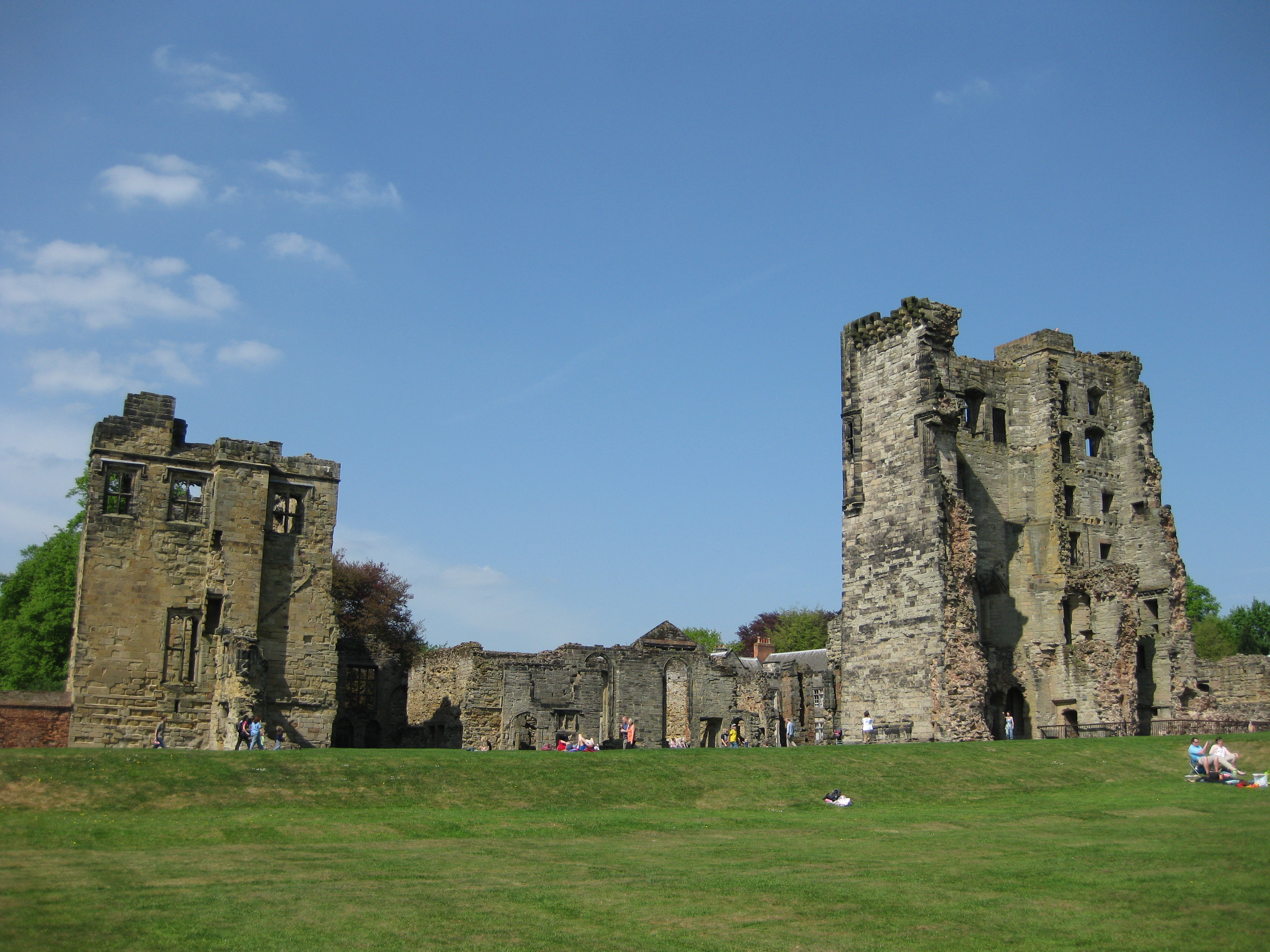 view of the main castle buidlings at Asby de la Zouch castle